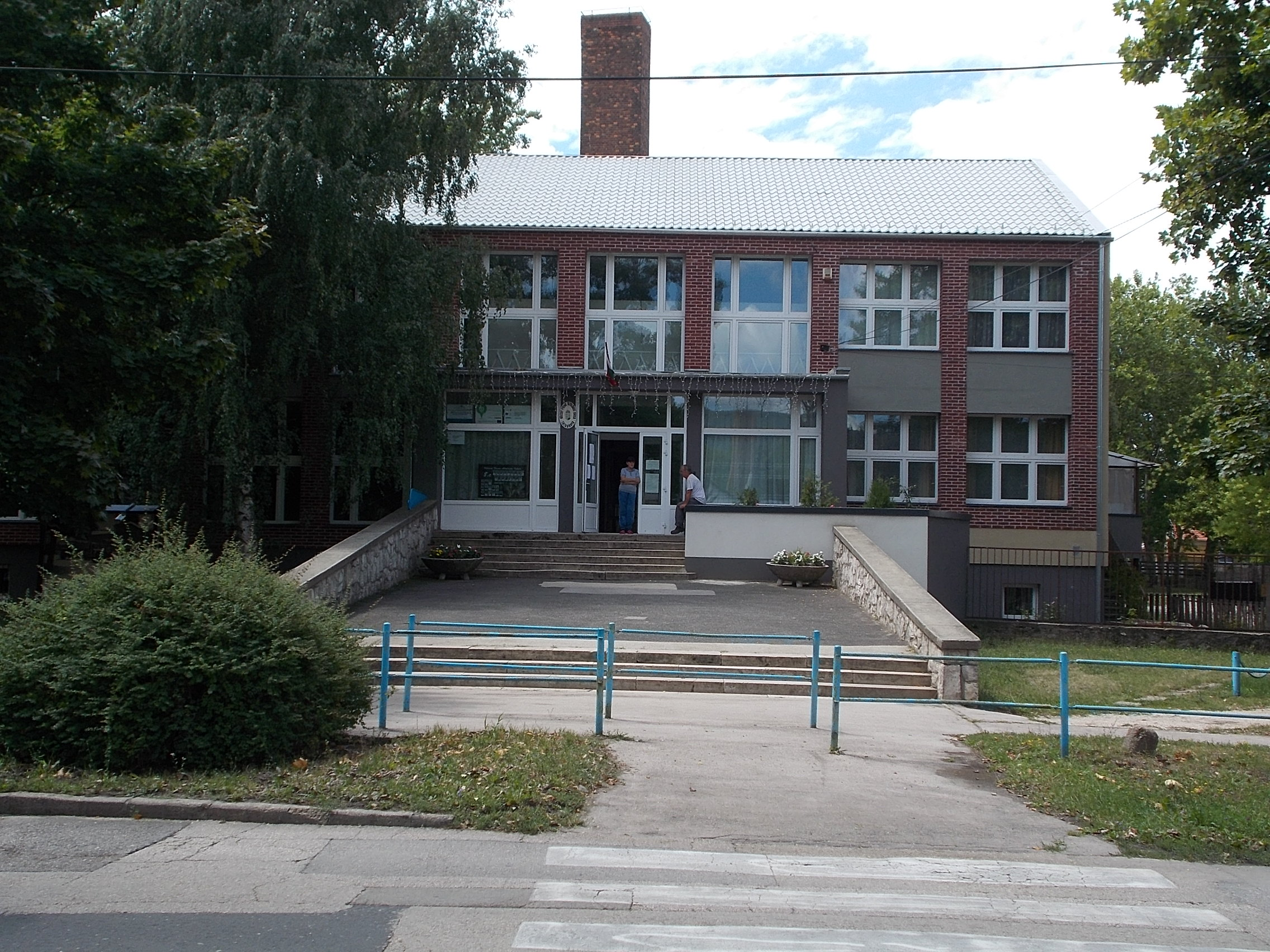 Ferenc Kölcsey (previously Sándor Sziklai ) elementary school. - 111 Hadsereg Street, Kertváros (lit. Garden City) neighborhood, Tatabánya, Komárom-Esztergom County, Hungary.